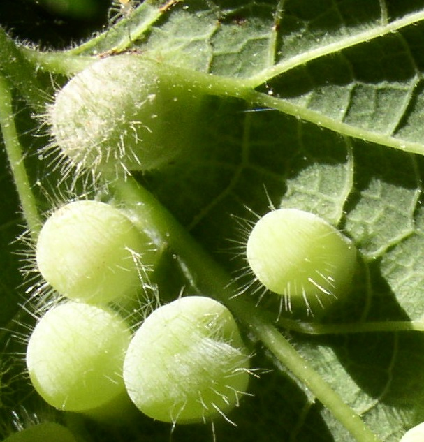 Pachypsylla celtidismamma (hackberry nipplegall maker). Evansburg State Park, Montgomery County, Pennsylvania, USA. 40.2007° N, 75.4040° W.